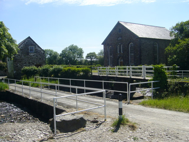 Rhydwilym Baptist Chapel with bridges over the Eastern Cleddau in the foreground. This is the mother church of the Baptists in west Wales. The first chapel was built here in 1701.